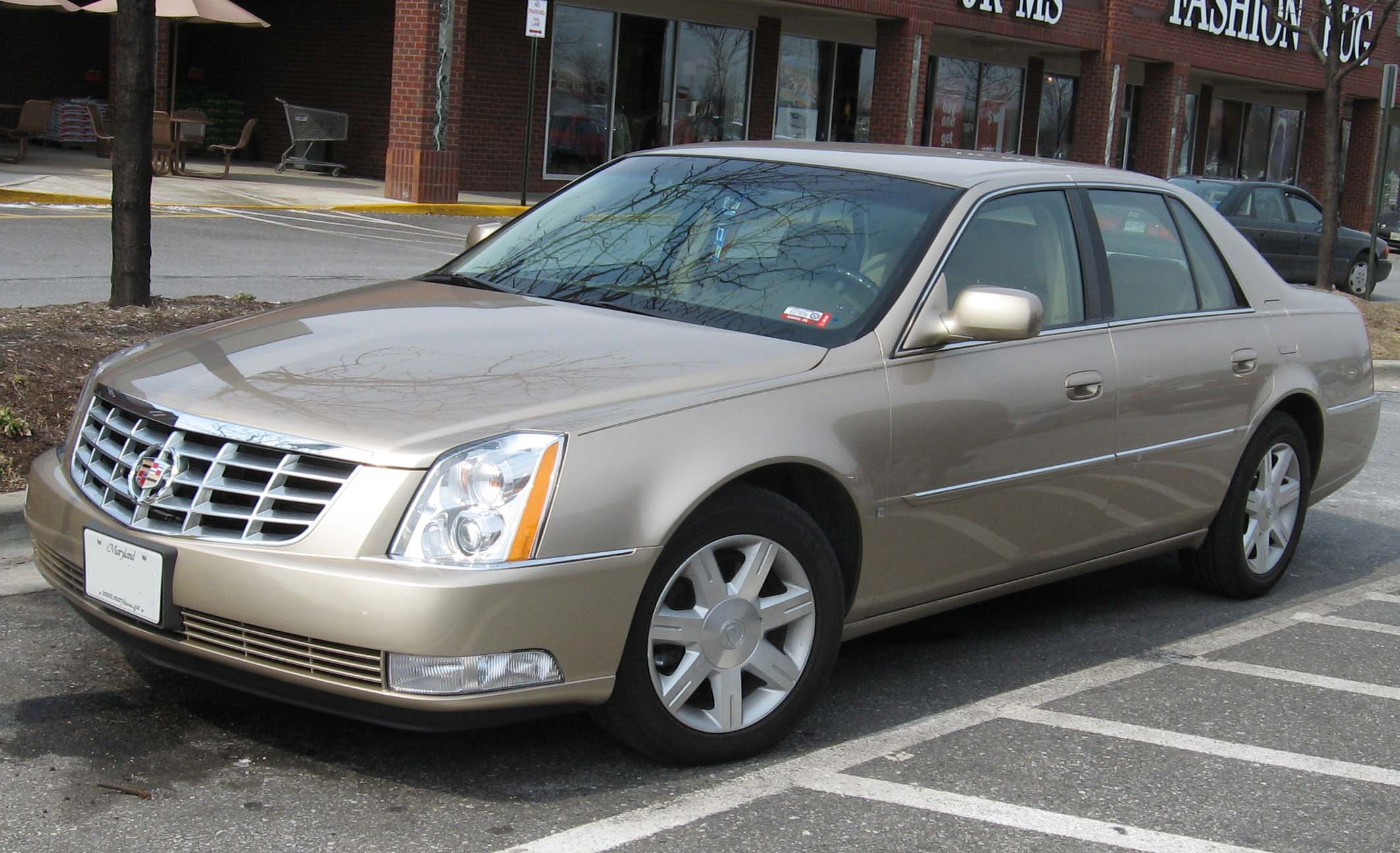 2006-2007 Cadillac DTS photographed in USA.